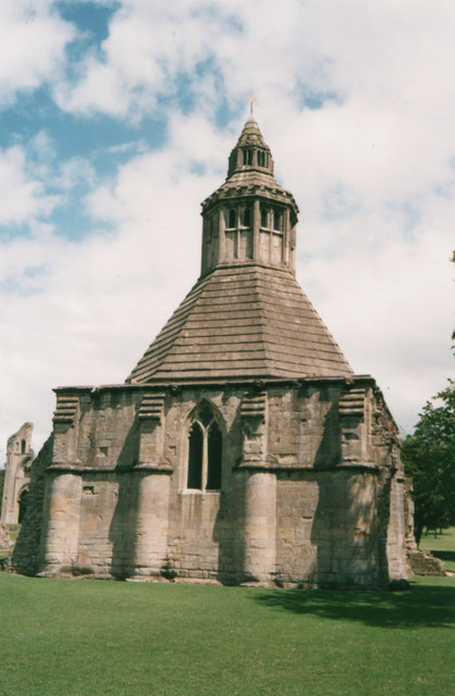 The Abbot's Kitchen, Glastonbury Abbey. Remains of Abbot's Hall to the left and behind main image.